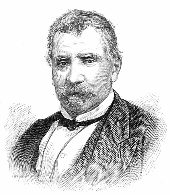 Alexandros Koumondouros, 19th-century Greek politician and Prime Minister